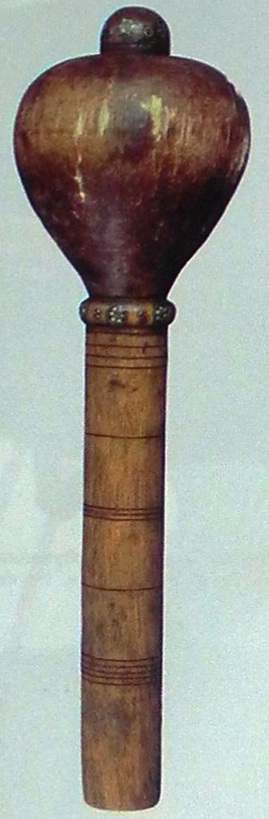 Bulawa of Ukraine's hetman Bohdan Khmelnytsky